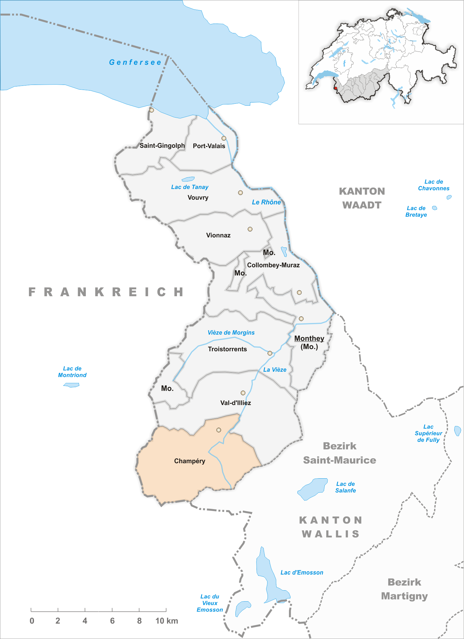 Municipality Champéry